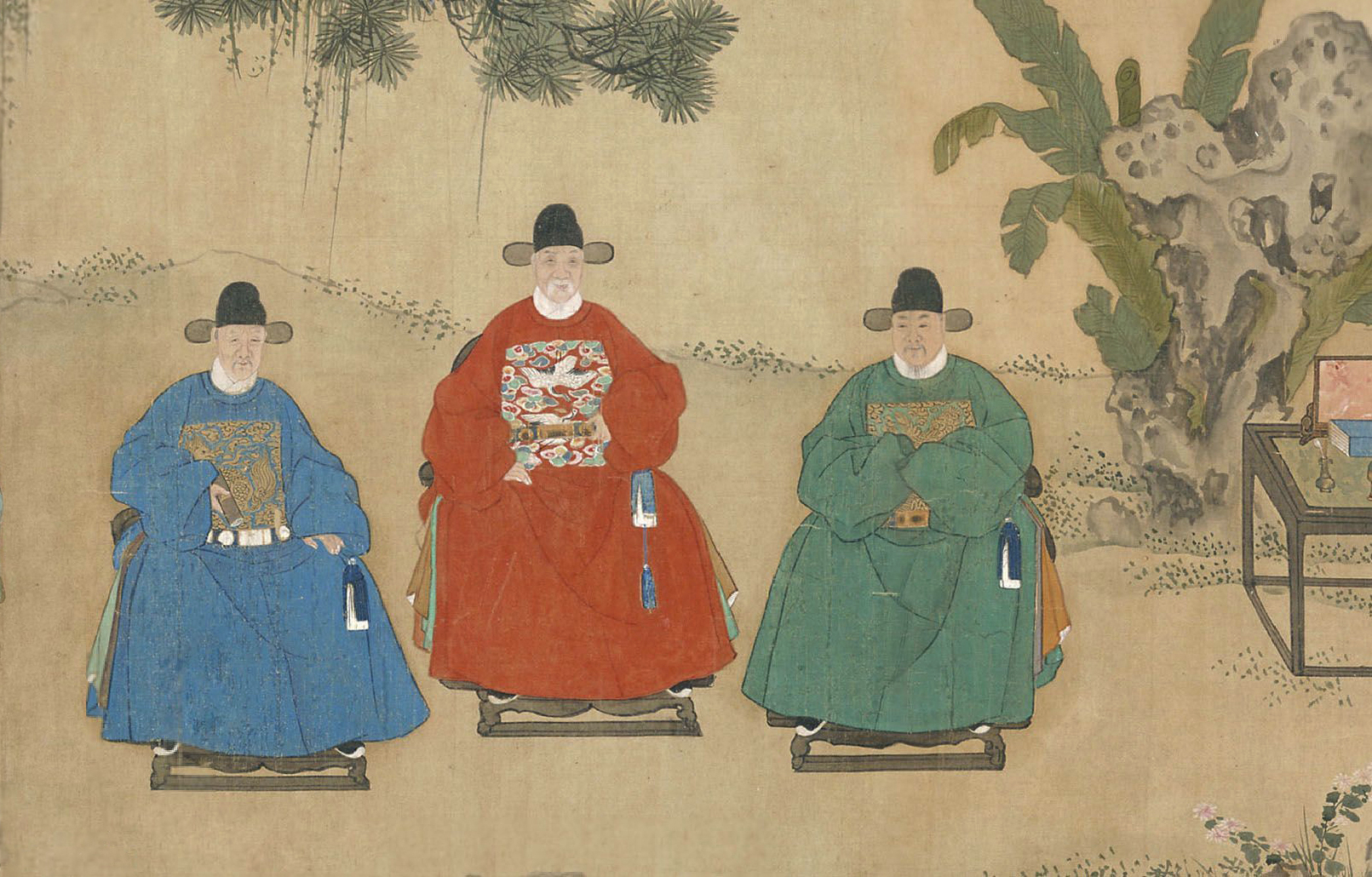 Portrait from China Ming Dynasty